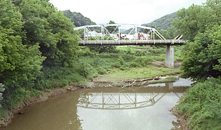 The Little Kanawha River at Glenville, West Virginia, 30 July 1996.